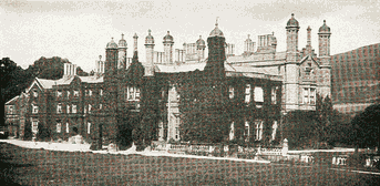 Glanusk Park, Powys County, U.K.